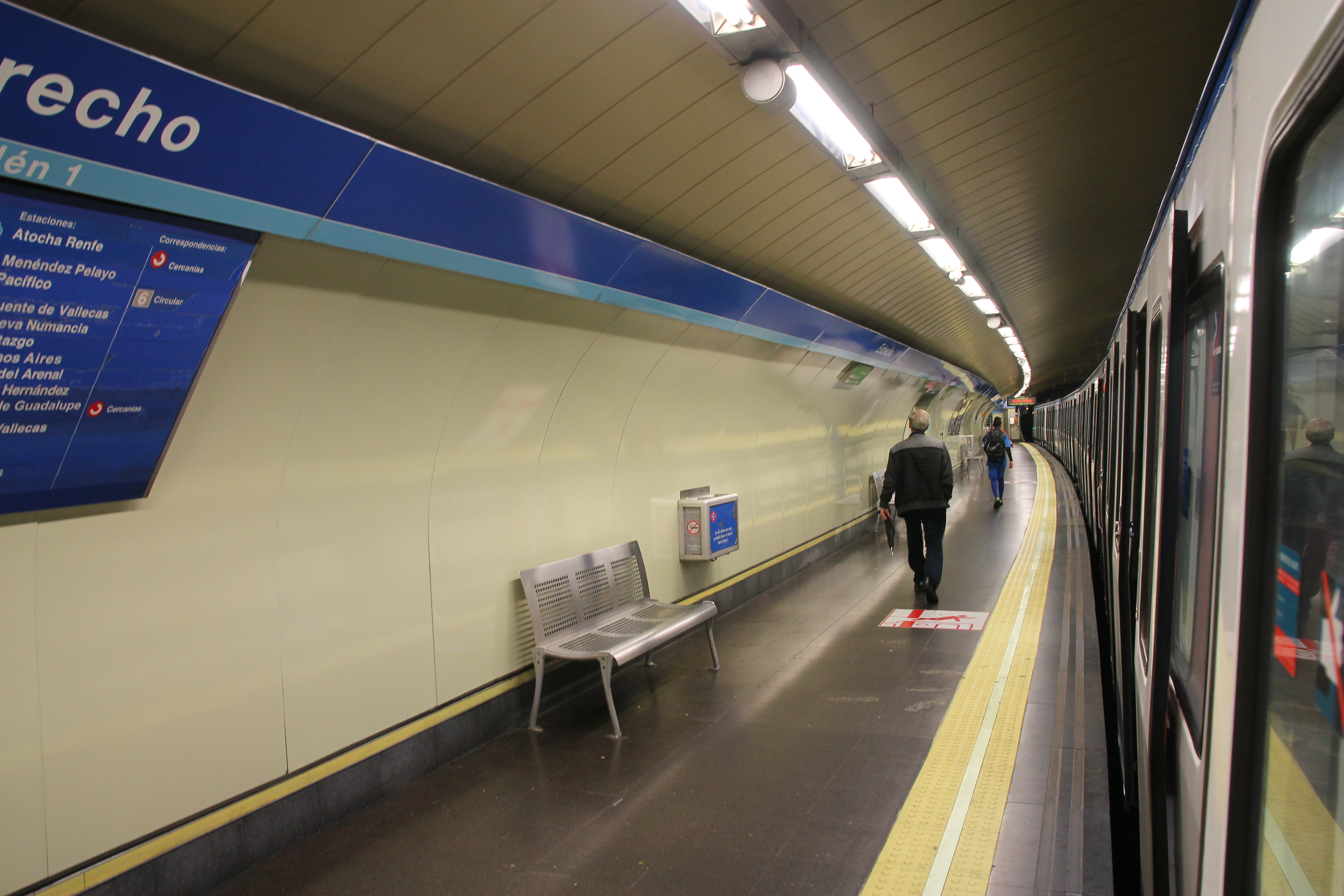 Estación de Estrecho